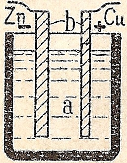 Voltaic cell.